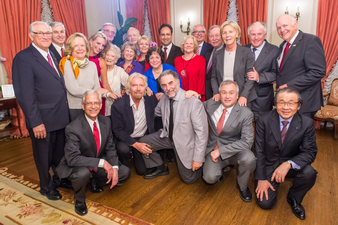 Sir Richard Branson and Eve Branson with the Board of ICMEC; per flickr image includes from Top Left: Charlie Morrison, George Bickerstaff, Hon. Anne-Marie Lizin, Ambassador Elizabeth Bagley, Eve Branson, Ernesto Caffo, Patty Wetterling, Victor Halberstadt, Helga Long, Nancy Kelly, Dan Cohen, Nancy Dube, Per-Olof Loof, Dan Broughton, Maud de Boer Buquicchio, Franz Humer, Senator Denis DeConcini; From Bottom Left: Ernie Allen, Richard Branson, James Cannavino, Tim Cranton, Osamu Nagayama